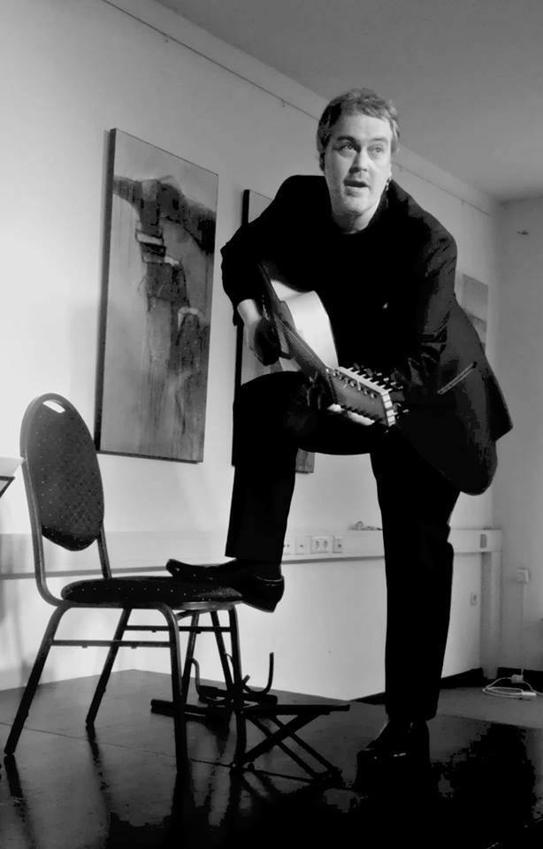 English lutenist Ben Salfield warming up before a concert at the Nordhorn Festival, Germany, in 2015.